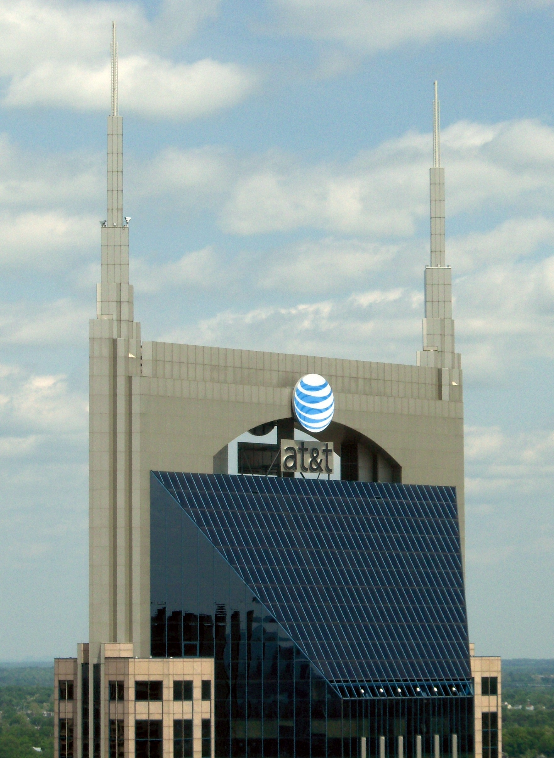 Top of the AT&T Building